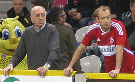 Germany, Bonn, Telekom-Dome: Bernhard "Bernd" Cullmann and his son Carsten (both former Bundesliga soccer players) during a tournament of traditional teams.